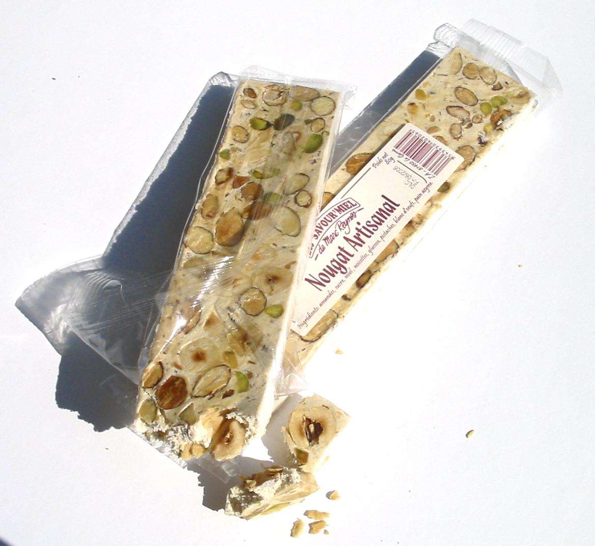 Nougat bar